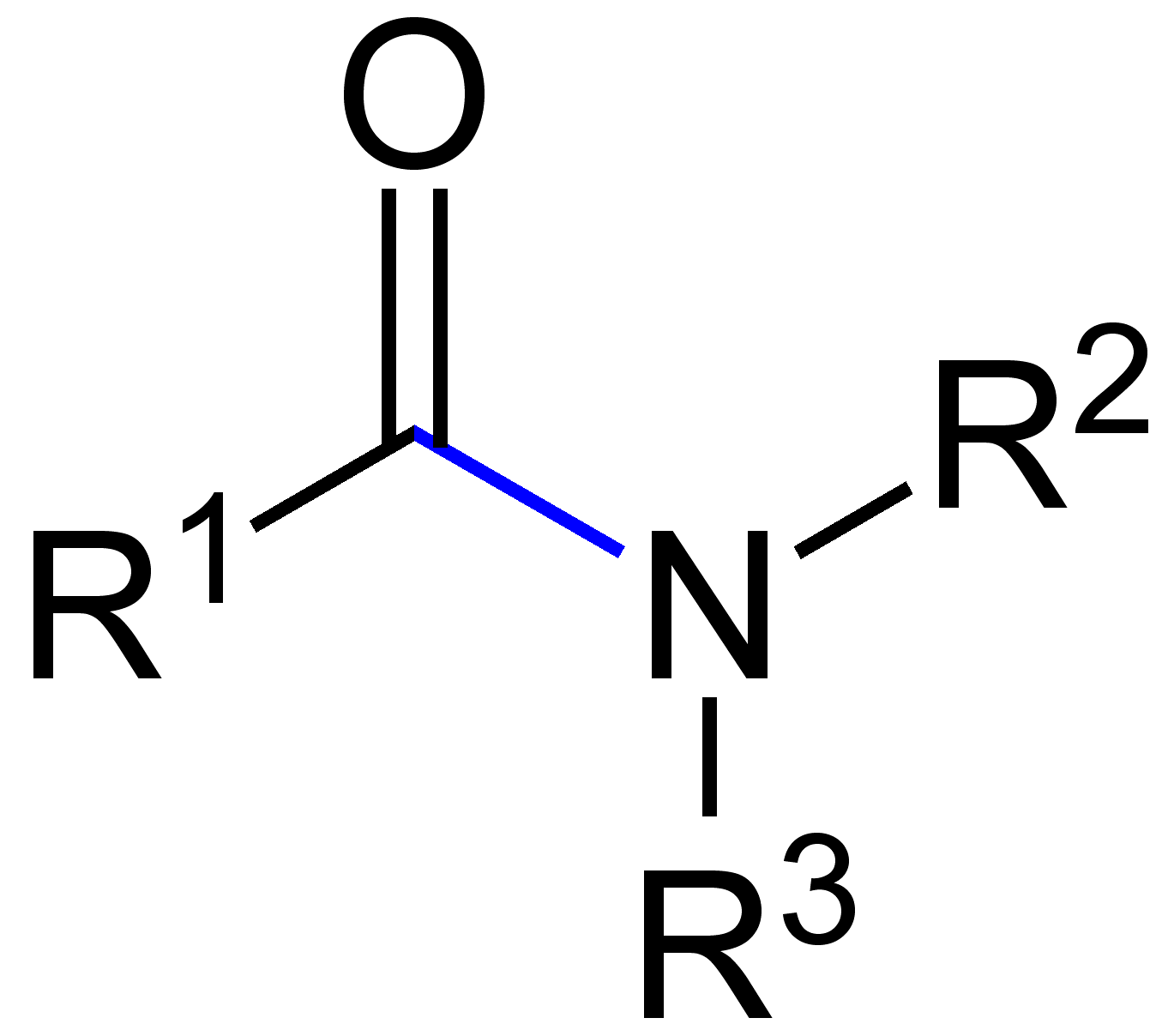 Carboxamide